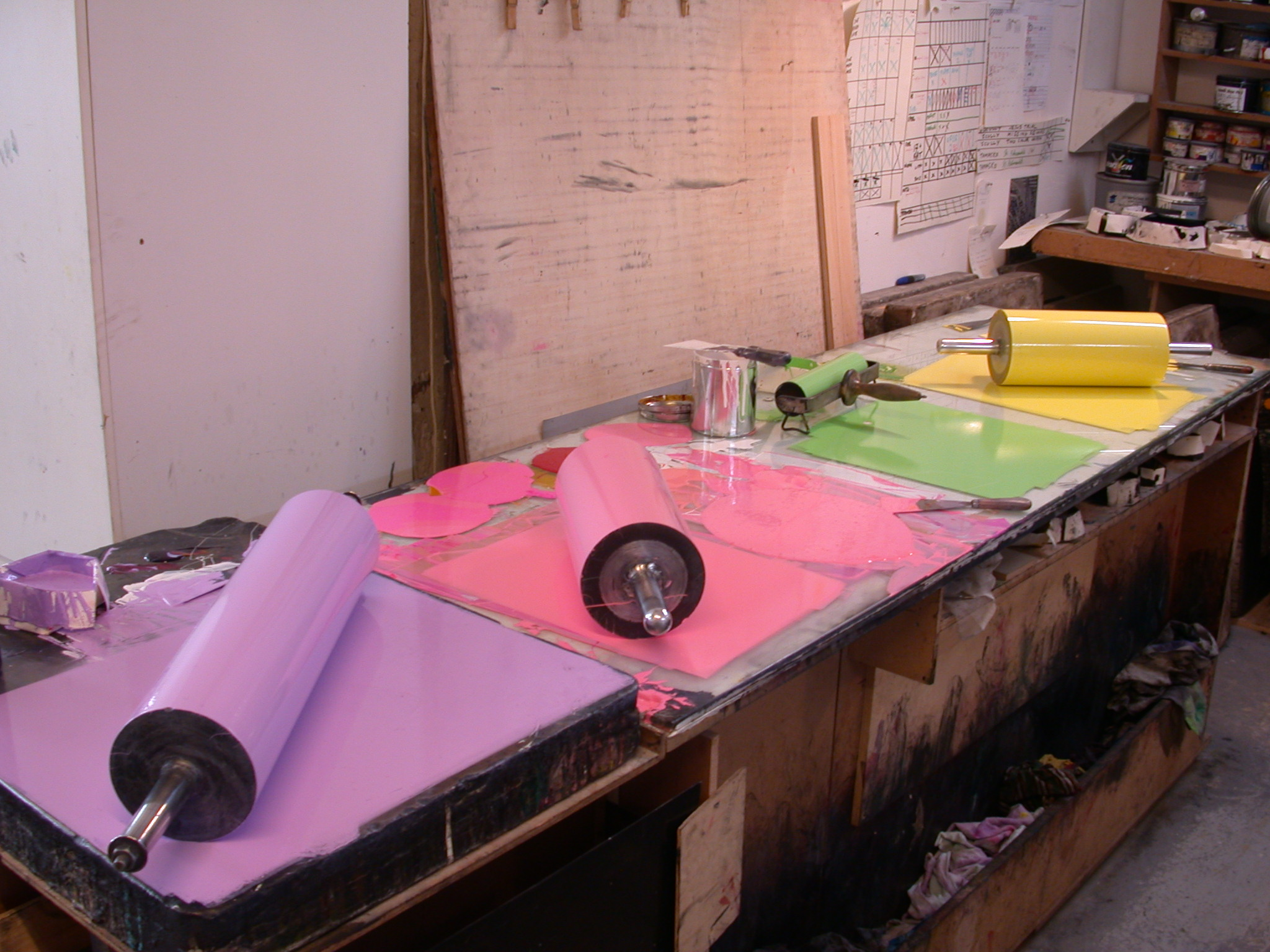 Ink for a print